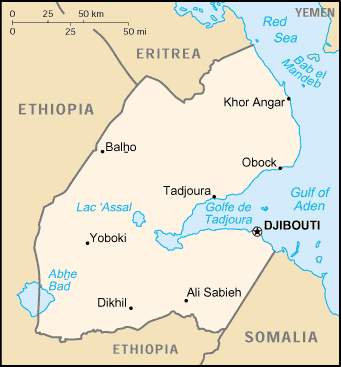 Map of Djibouti from the CIA World Factbook. Converted from the GIF image [1]. Image history (Dj-map.jpg) (del) (cur) 02:53, 2002 Oct 7 . . Jheijmans (96354 bytes) (Map of Djibouti (CIA World Factbook))